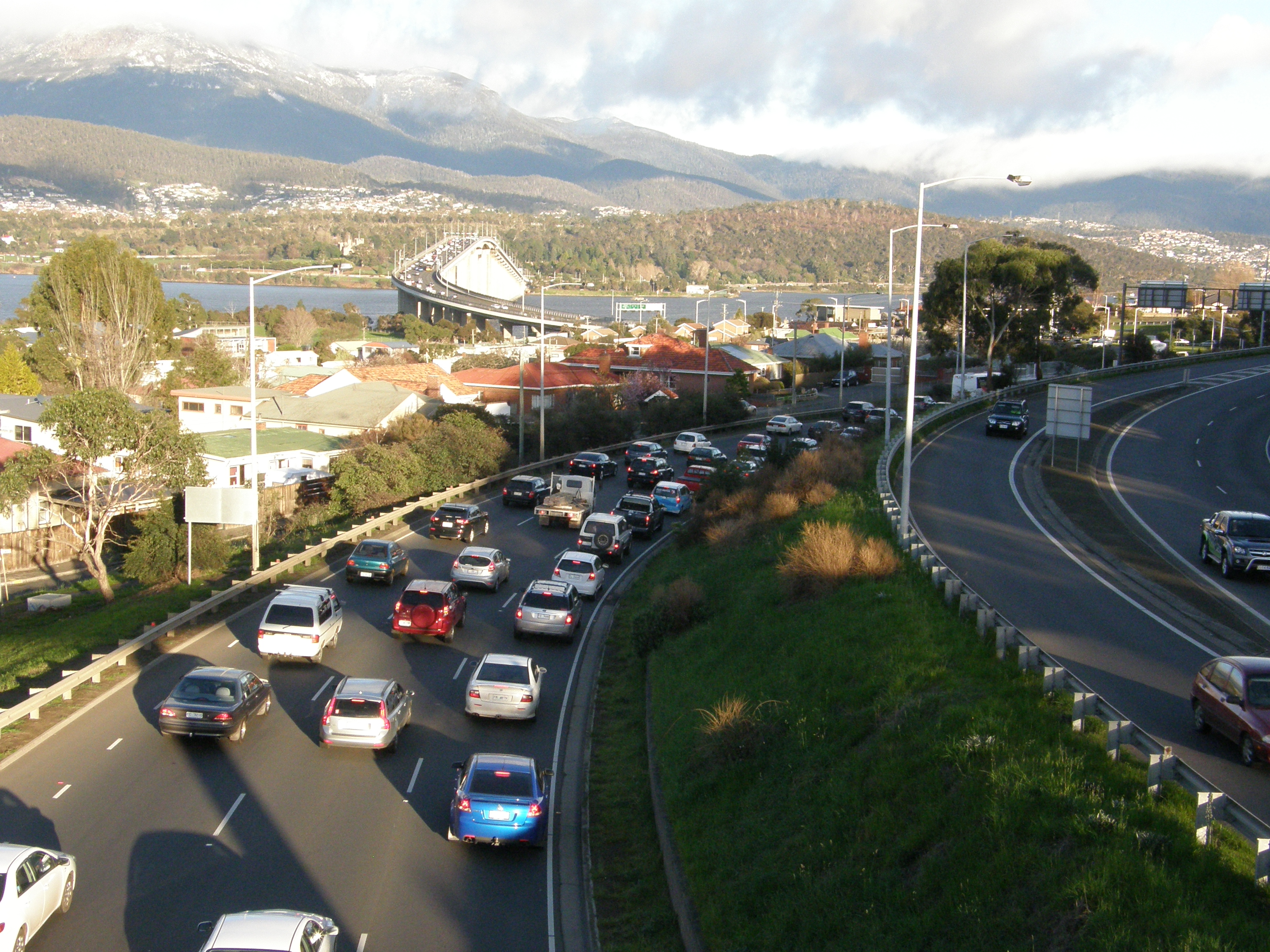 The Tasman Highway at Montagu bay, approaching morning Rush Hour. This is a view of the city bound lanes near the Lindasfarne Interchange, with the Tasman Bridge and Mount Wellington in the background